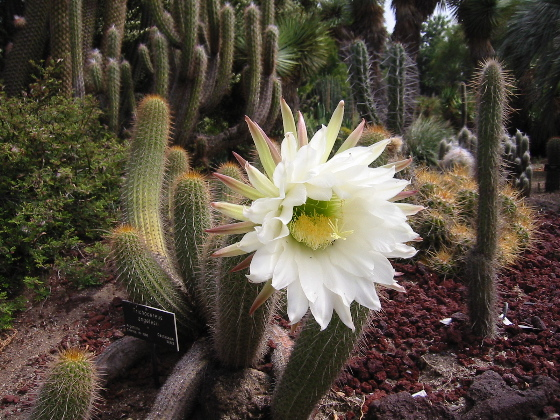 A Torch cactus blooming